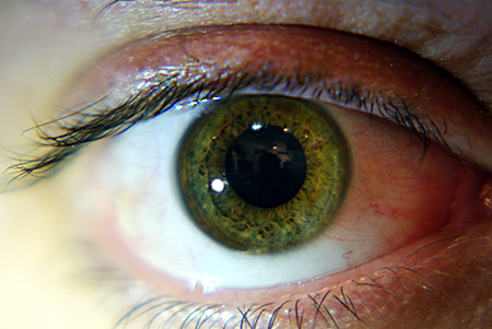 Picture of green eye